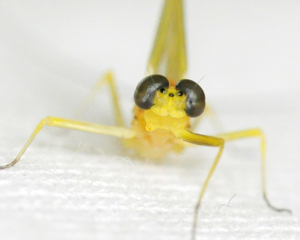 Heptagenia sulphurea (Yellow May dun). Mayfly found in a garden in Hønefoss. Captured with Nikon D90, a 85 mm Nikkor Macro lens, f/11, ISO 2500 in cloudy conditions.